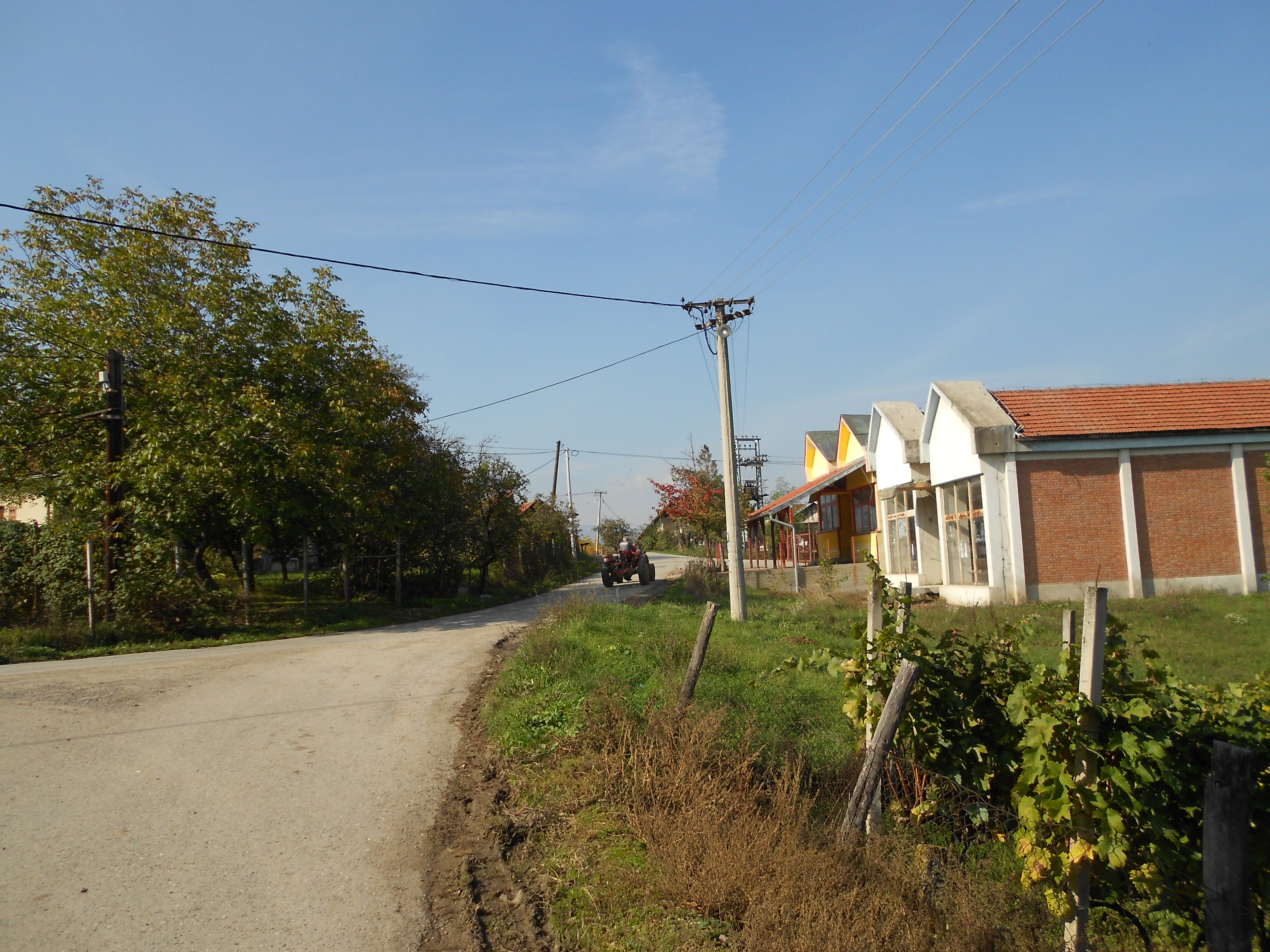 Botunja